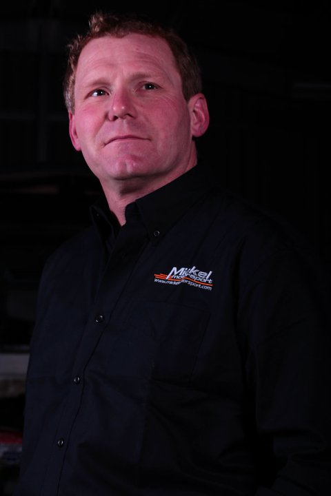 John Mickel Profile shot taken by me in the Mickel Motorsport Workshop for the Official Mickel Motorsport photoshoot